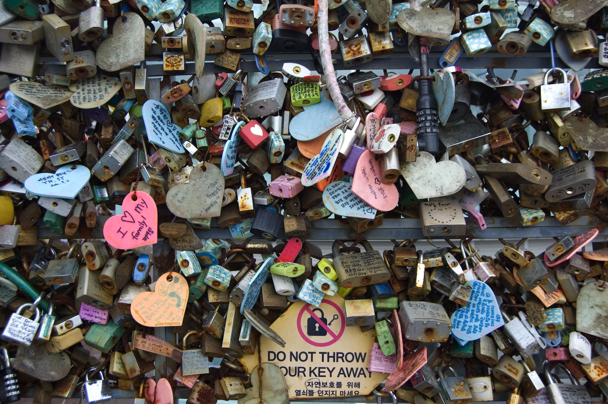 Padlocks and sign at the N Seoul Tower